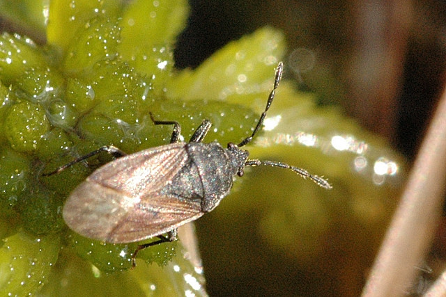 Picture taken in Commanster, Belgian High Ardennes . Species: Drymus brunneus